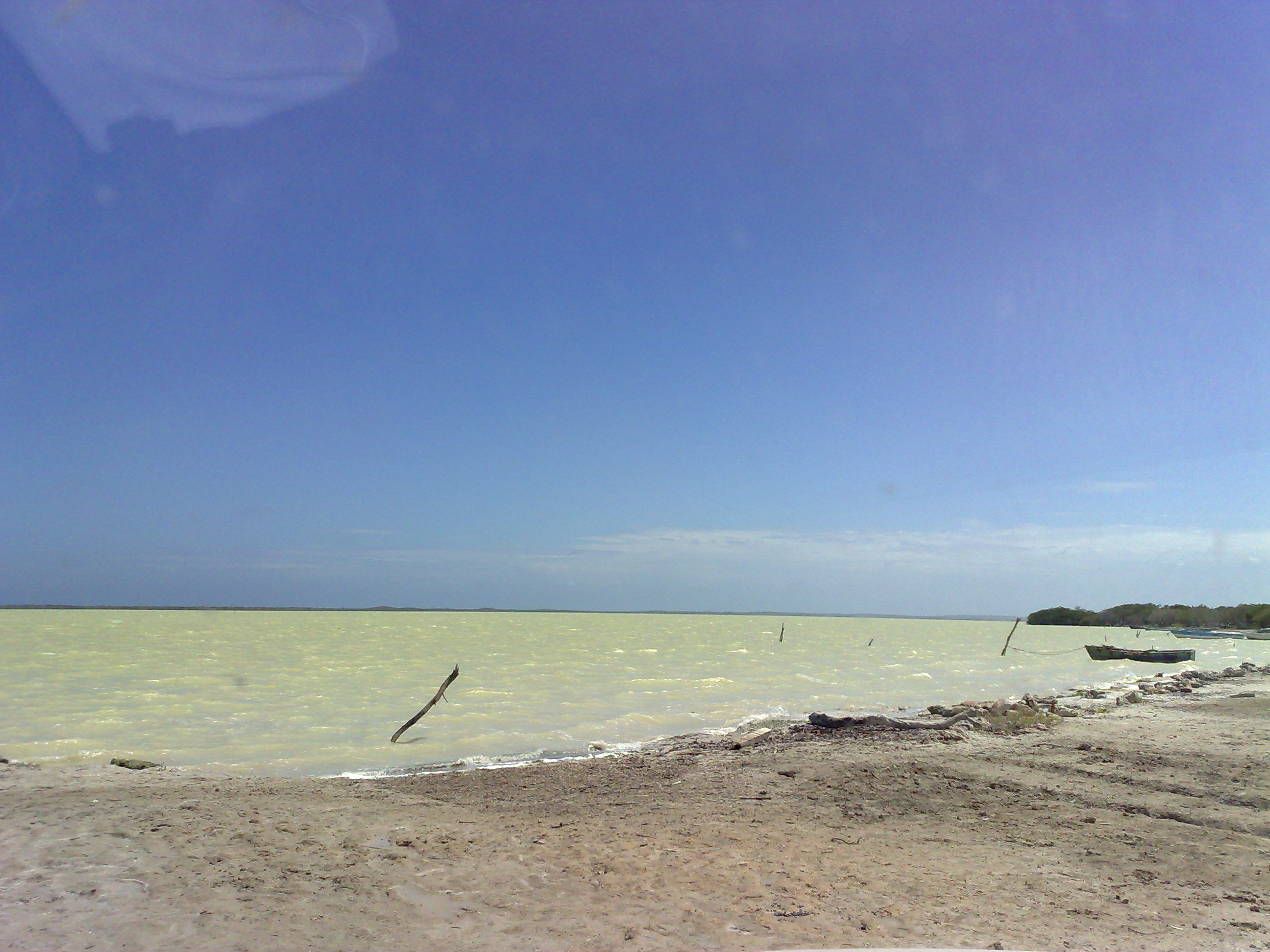 Lake Oviedo (Lago de Oviedo), Pedernales - Dominican Republic